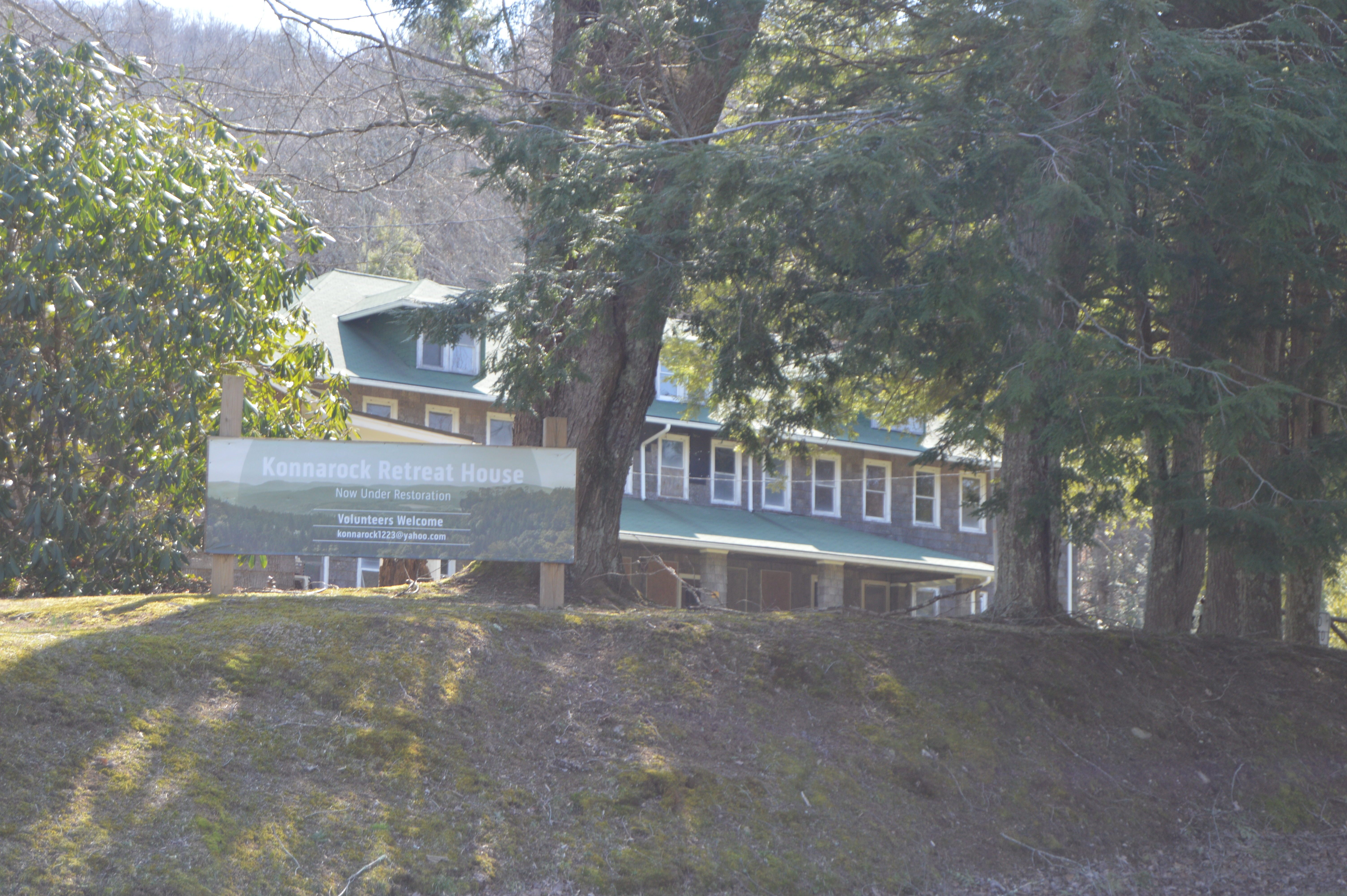 Front of the former Konnarock Training School, located at the intersection of Whitetop and Konnarock Roads at Konnarock in Smyth County, Virginia, United States. Built in 1925, it is listed on the National Register of Historic Places.